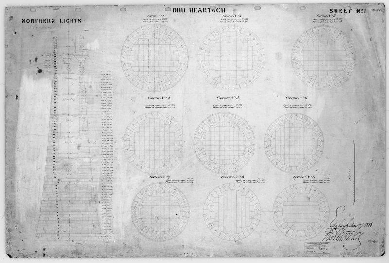 Courses and sections of the lighthouse at Dubh Artach, Scotland.